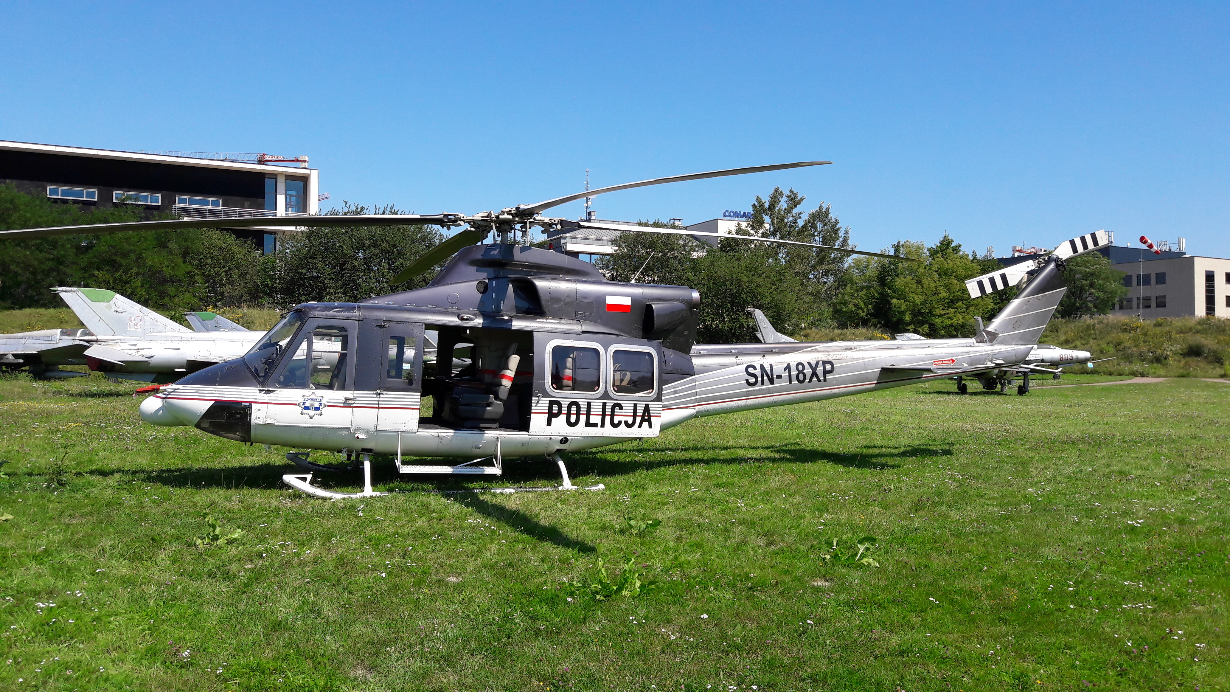 Polish Police helicopter, Bell 412, no SN-18XP